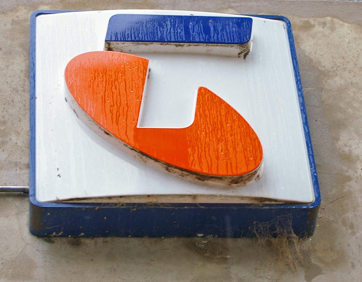 Telstra sign on an Telstra Telephone Exchange